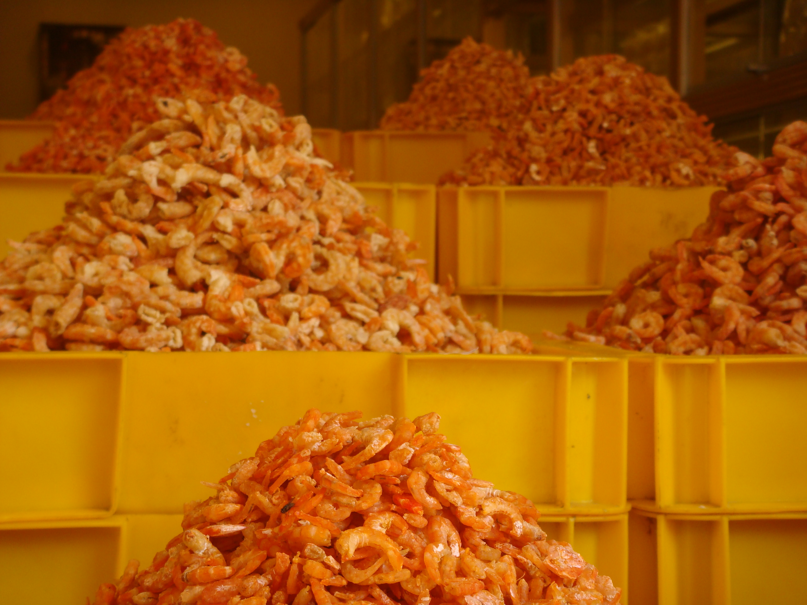 Dried shrimp for sale near Bến Thành market, Saigon, An Hòa Food Việt Nam. Feb 2009